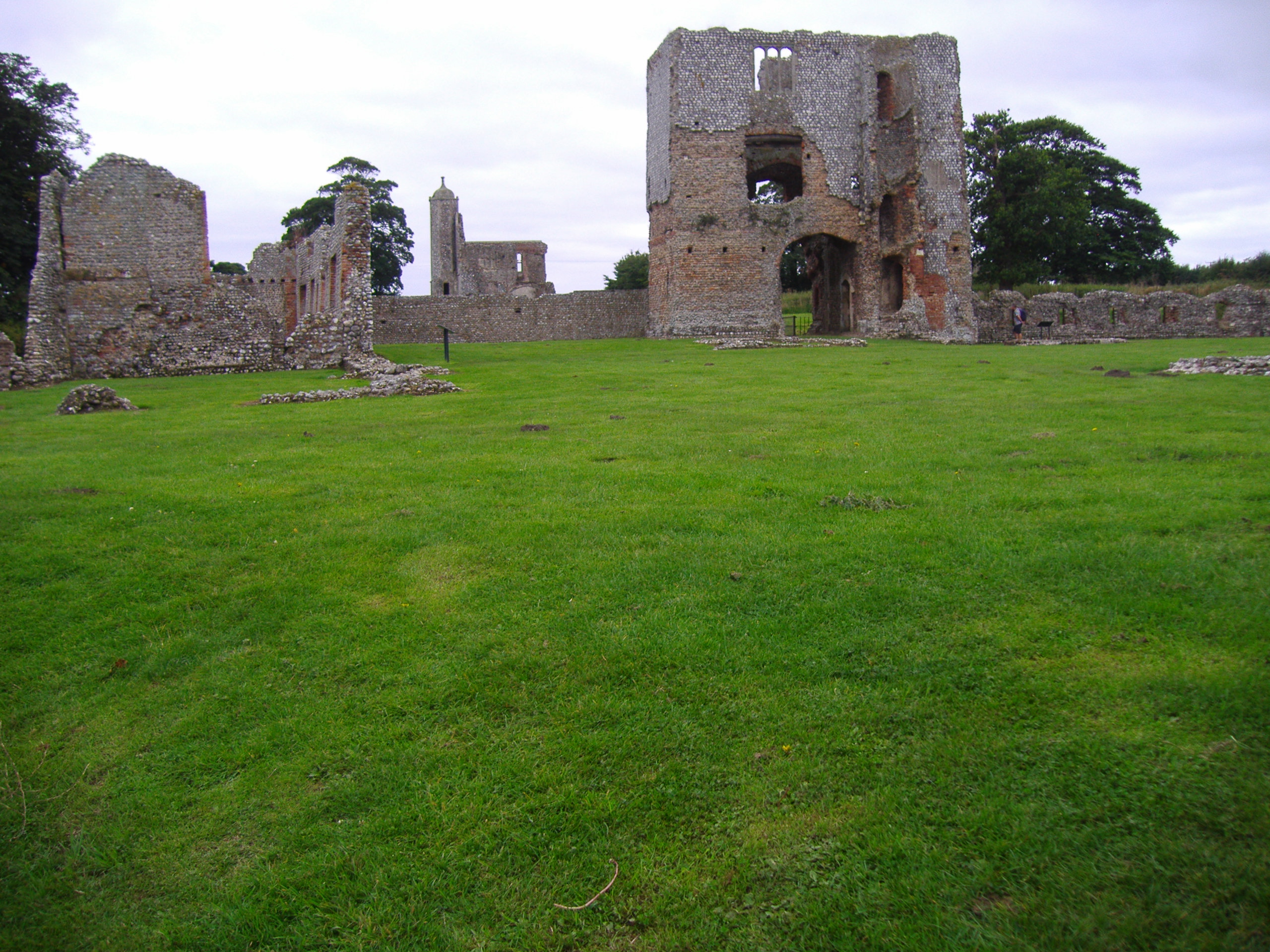 The quadrangle from the north east tower